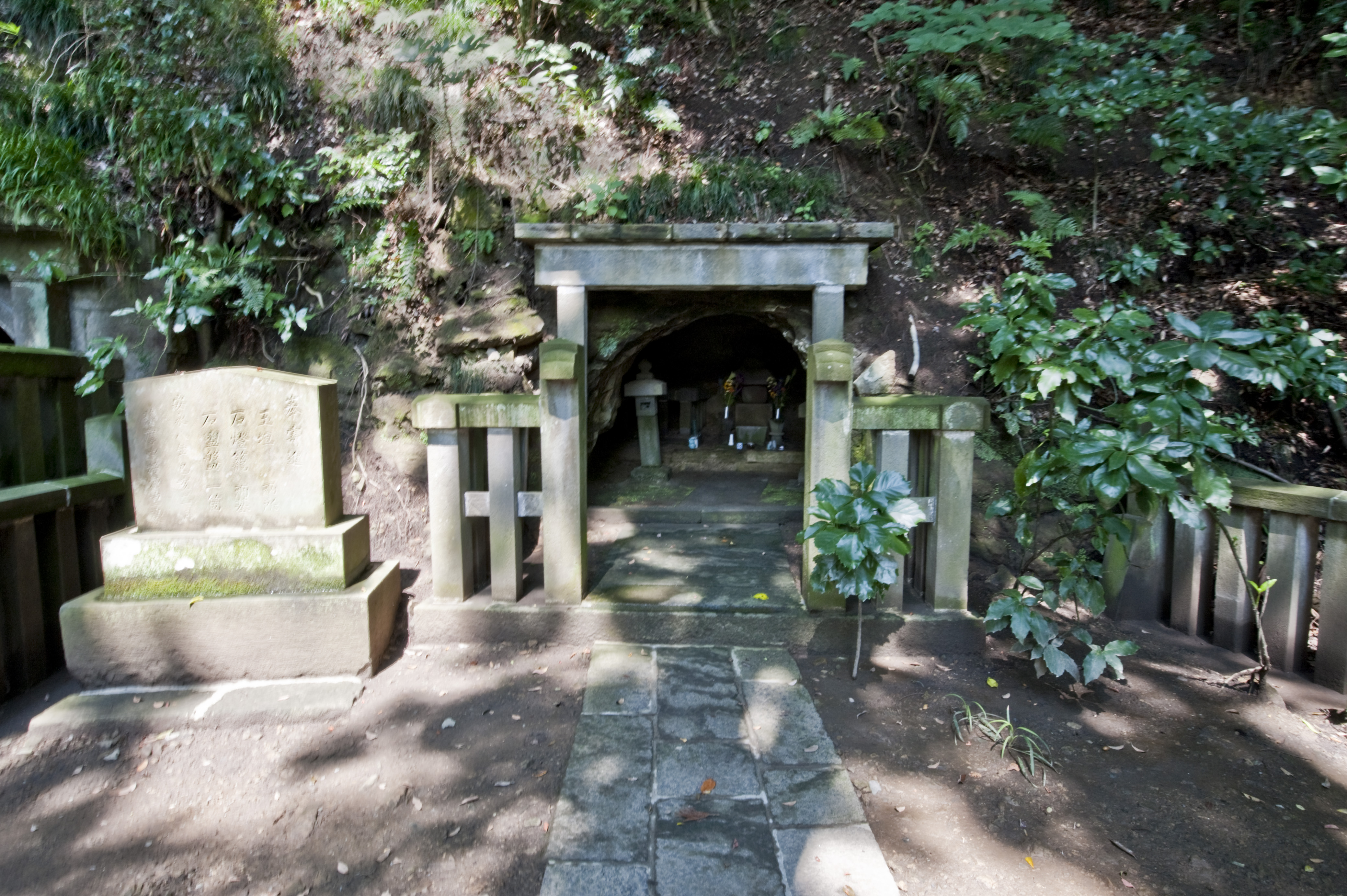 The tomb of Shimazu Tadahisa (島津忠久) in Kamakura